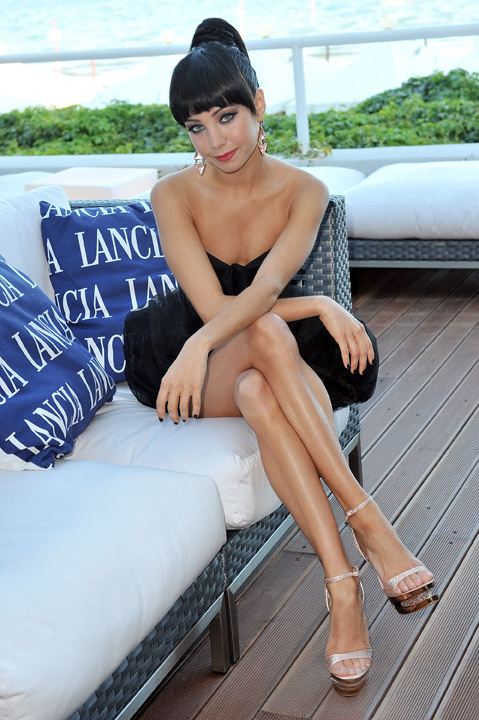 Ksenia Solo at the Lancia Cafè at the Venice Film Festival